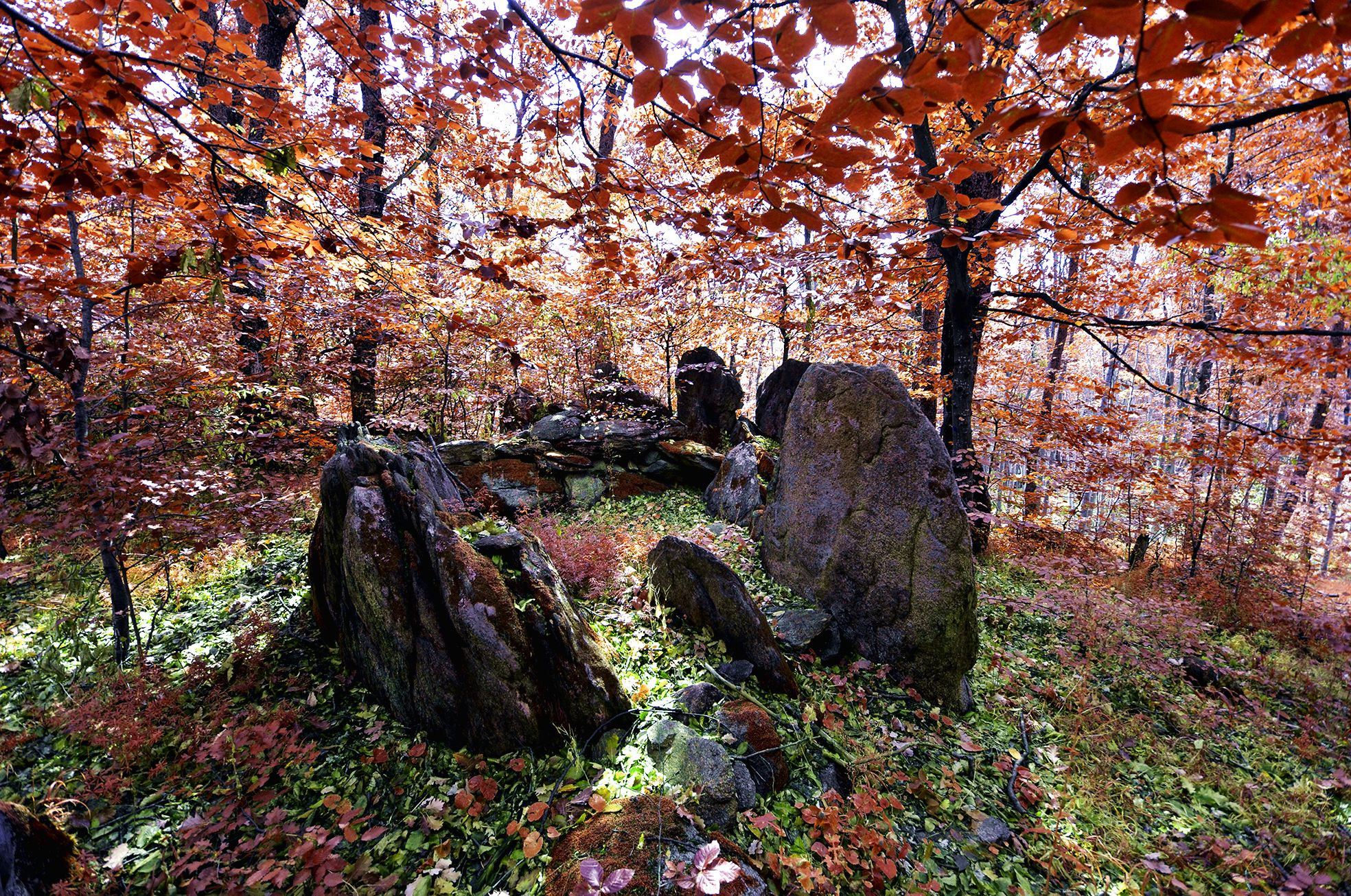 The circle Rozovetz BG